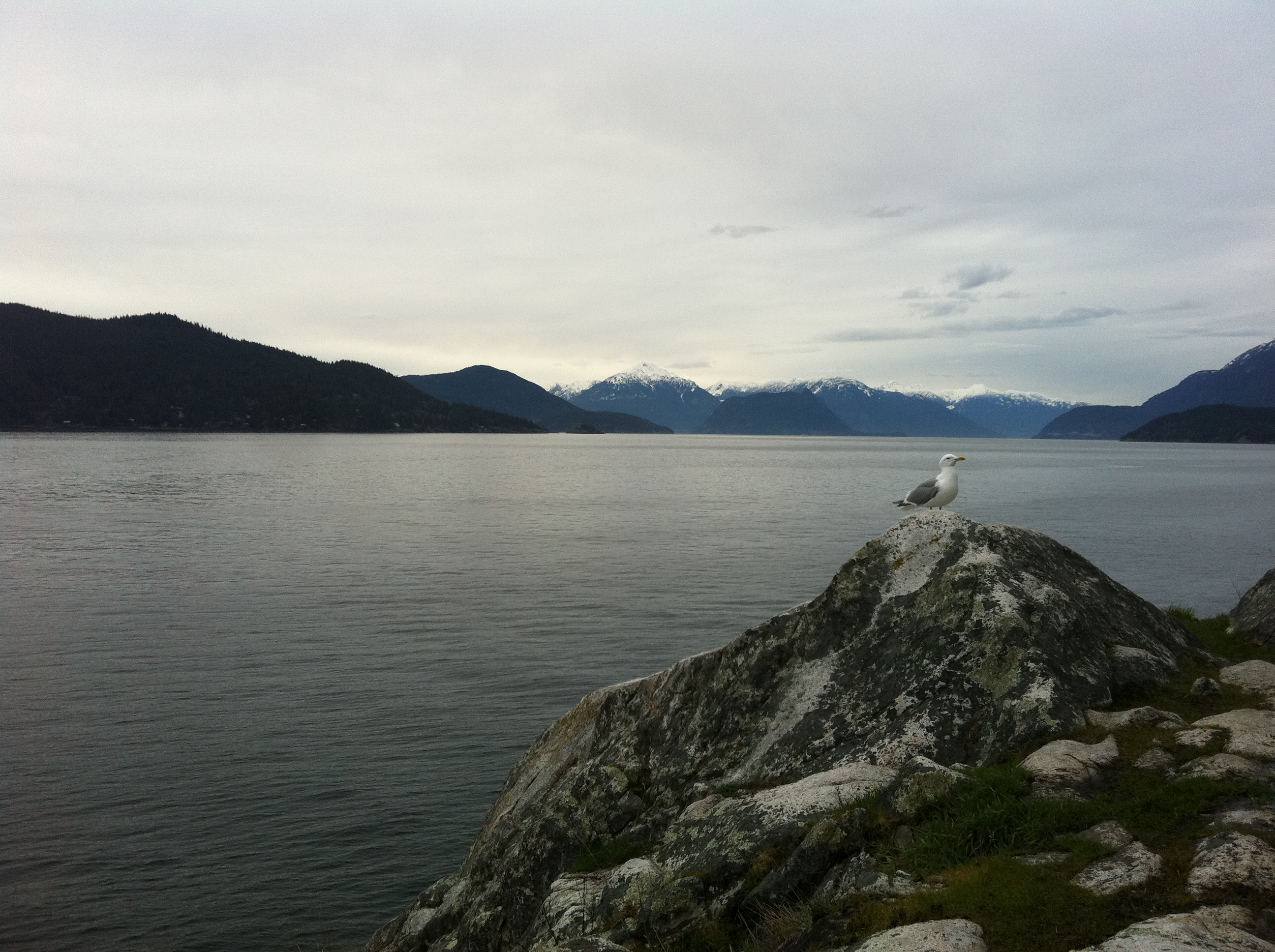 Whytecliff Park, Vancouver